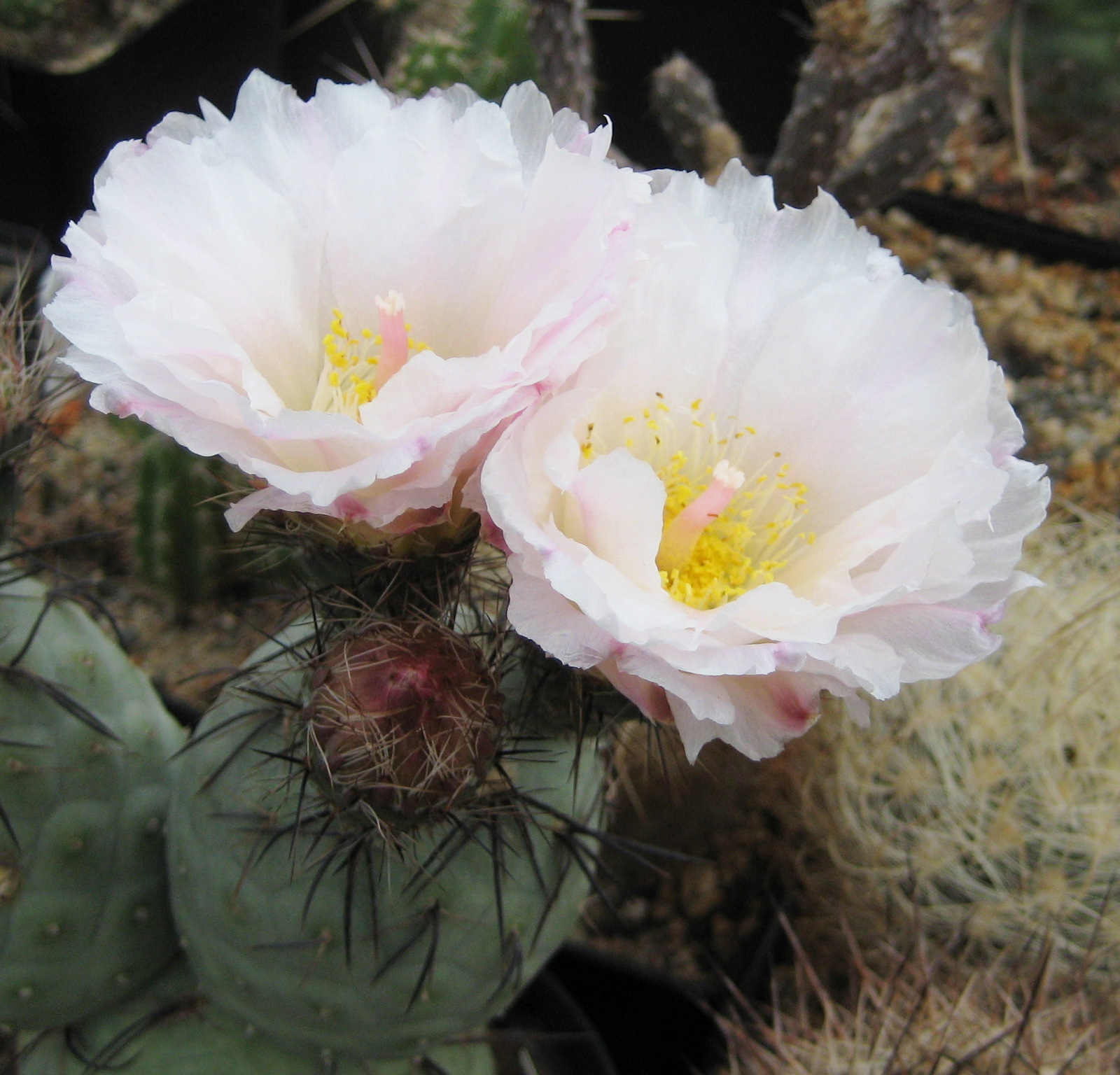 Tephrocactus geometricus in Kultur